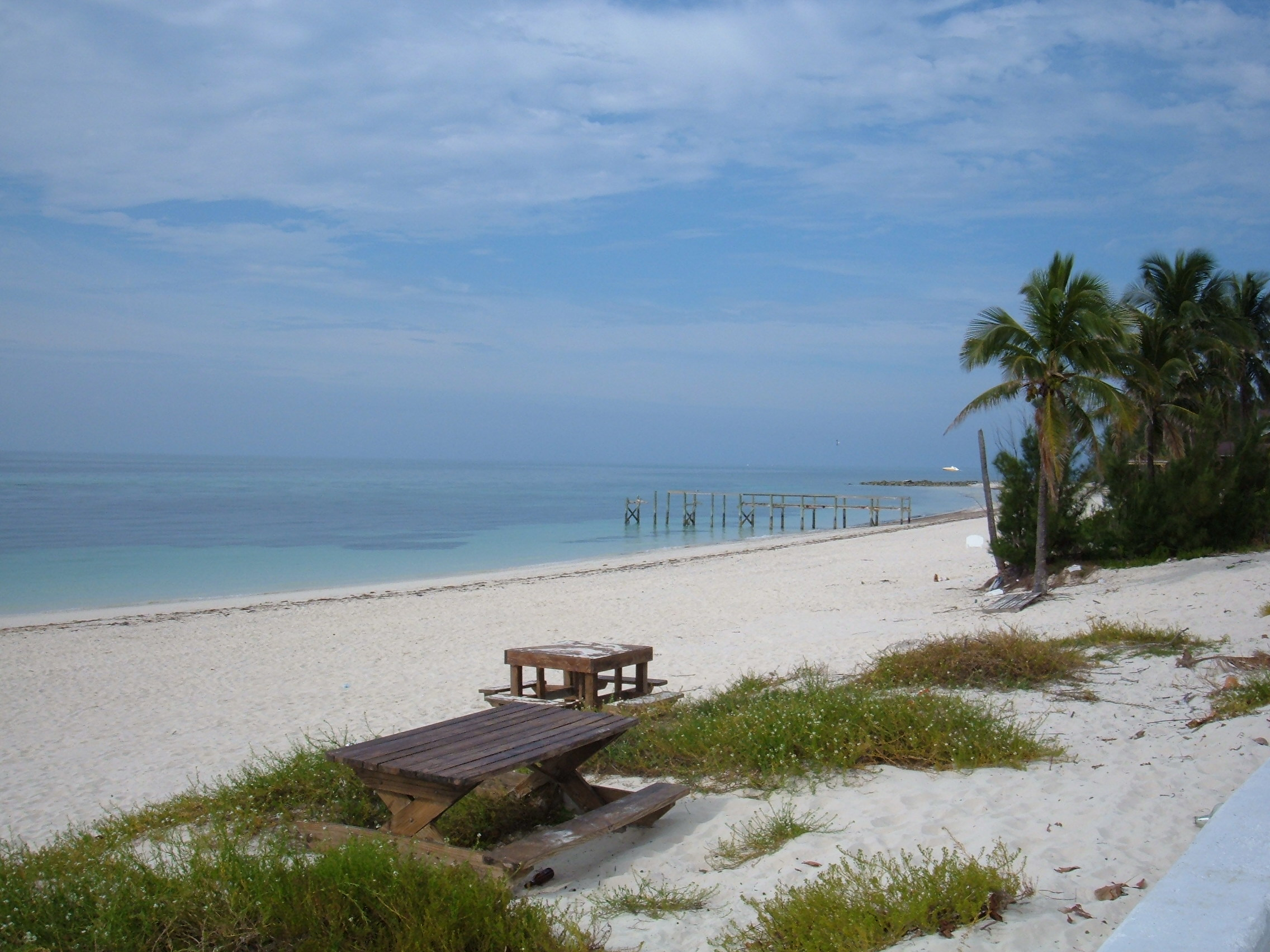 A beach on Grand Bahama island, The Bahamas.